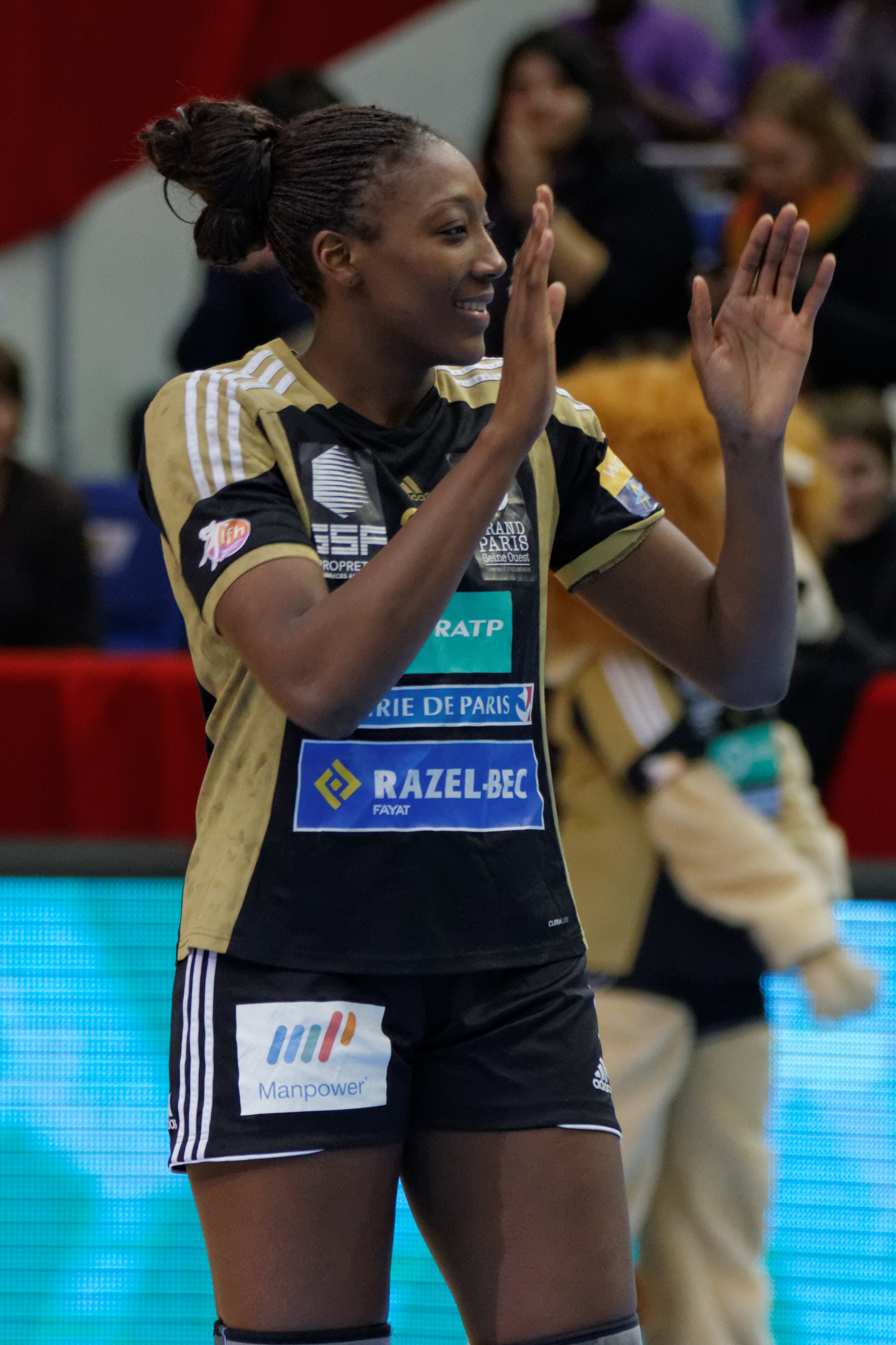 Final of the Women's handball French cup 2013. Handball Cercle Nîmes vs Issy Paris Hand, stadium Pierre-de-Coubertin at Paris.